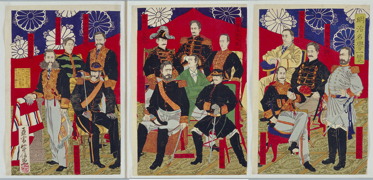 Woodblock print depicting dignitaries of early Meiji Japan.